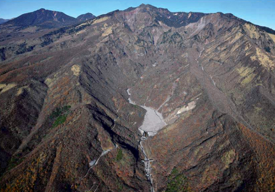 Japan: aerial view of the Unryū valley in Nikkō city (Tochigi prefecture).